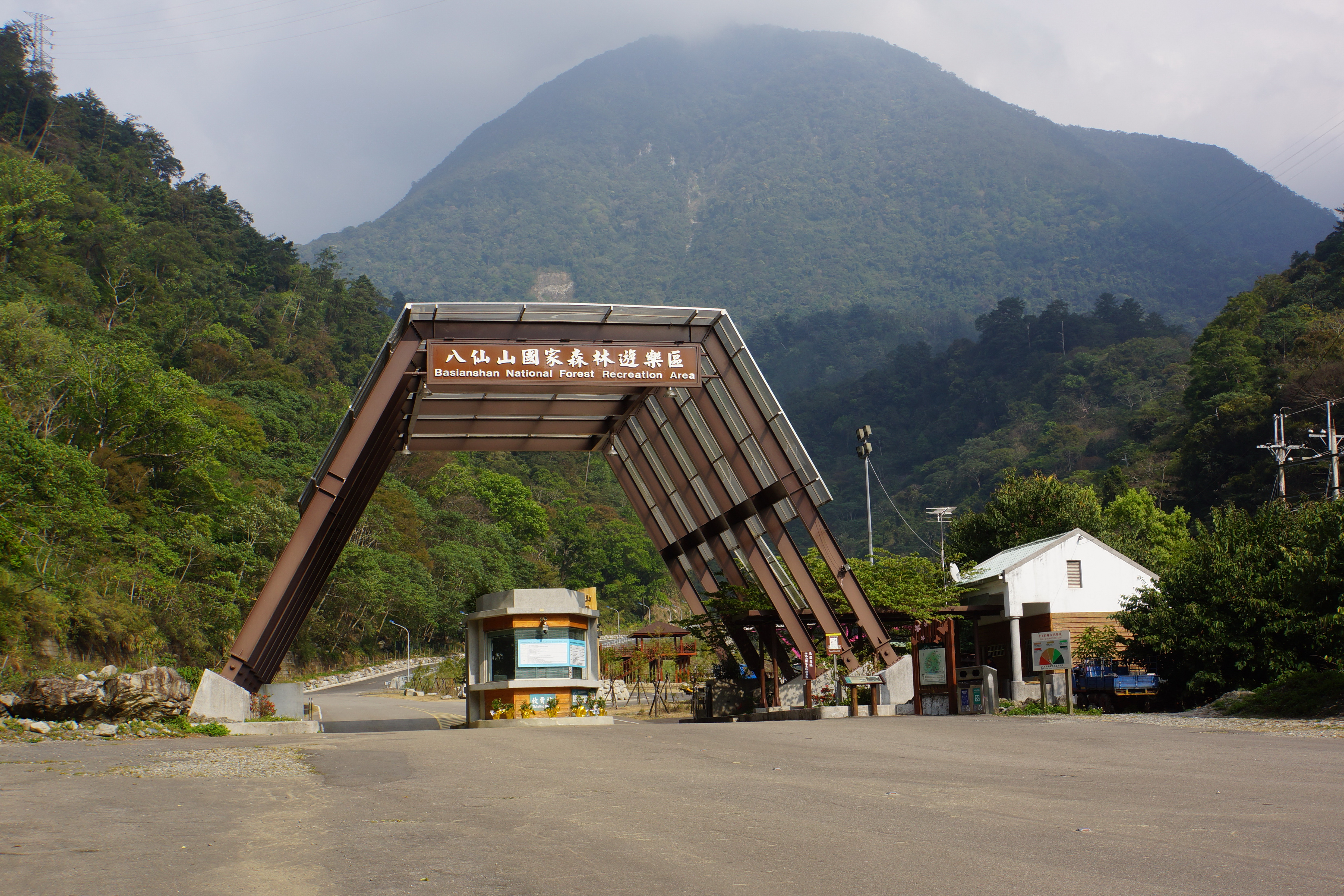 八仙山森林遊樂區 Basianshan National Forest Recreation Area